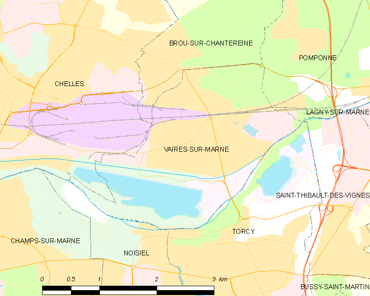 Map of French municipality Vaires-sur-Marne